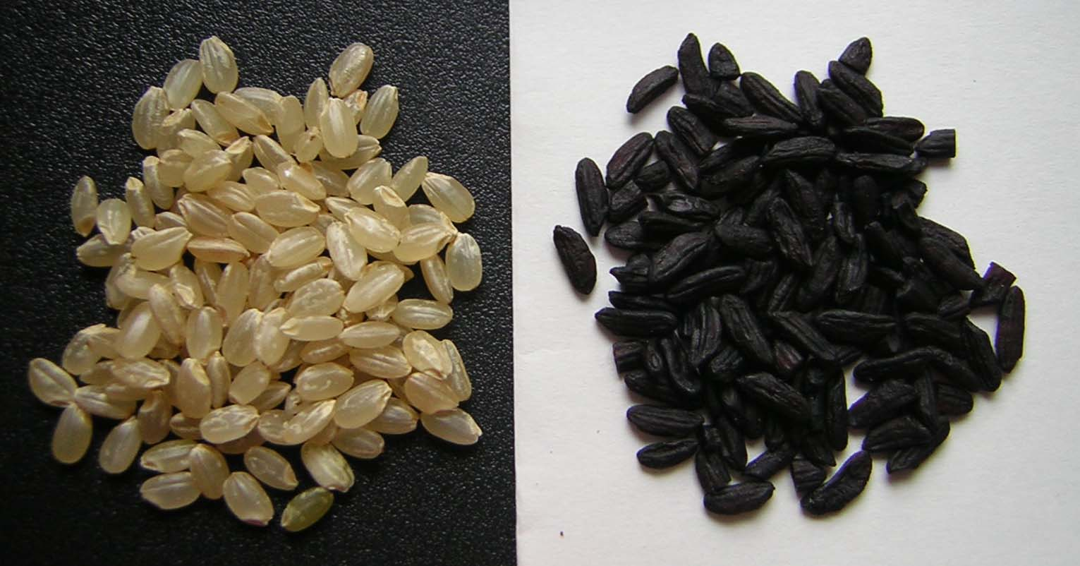 Full grain rice and black rice from Japan